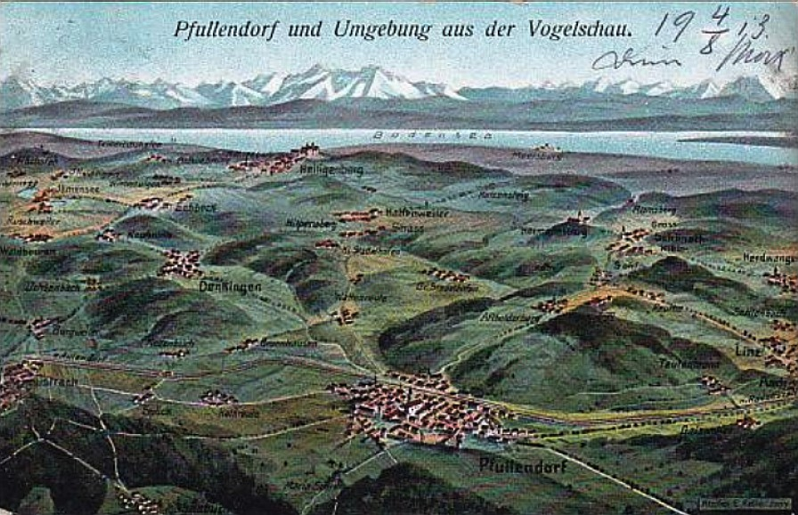 Bird's eye view of the Linzgau, the region north of Lake Constance. Postcard issued circa 1910